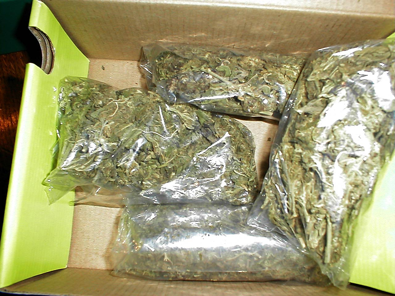 Four ounces (113 grams) of low-grade marijuana, usually referred to as a quarter-pound or QP.